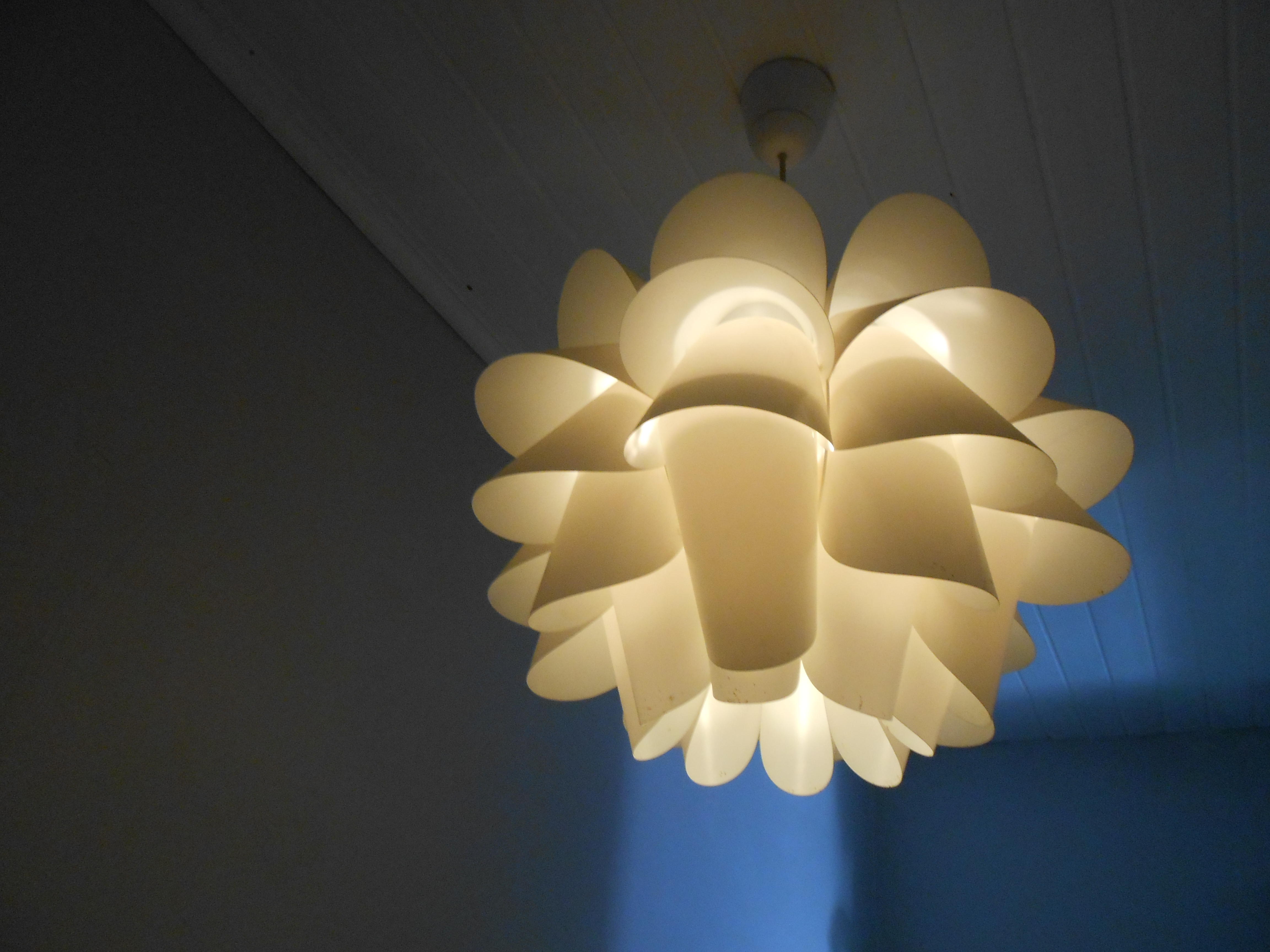 Lampe de maison